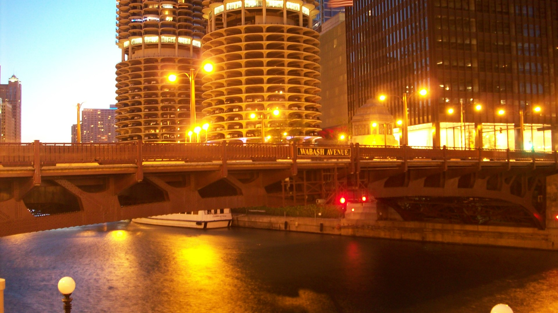 Wabash Avenue Bridge looking North from Wacker Drive in Chicago, IL